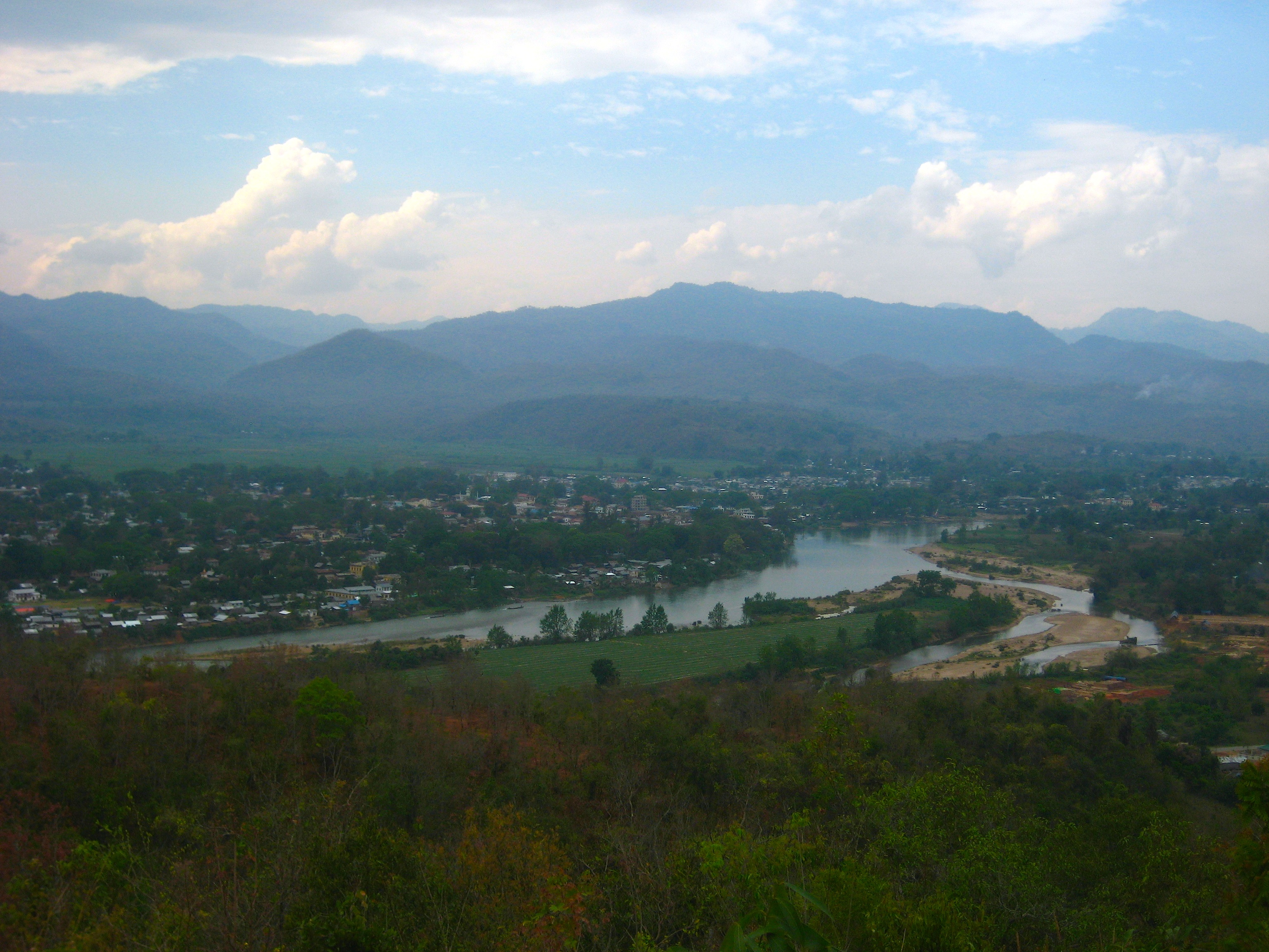 Hsipaw, Myanmar 2011